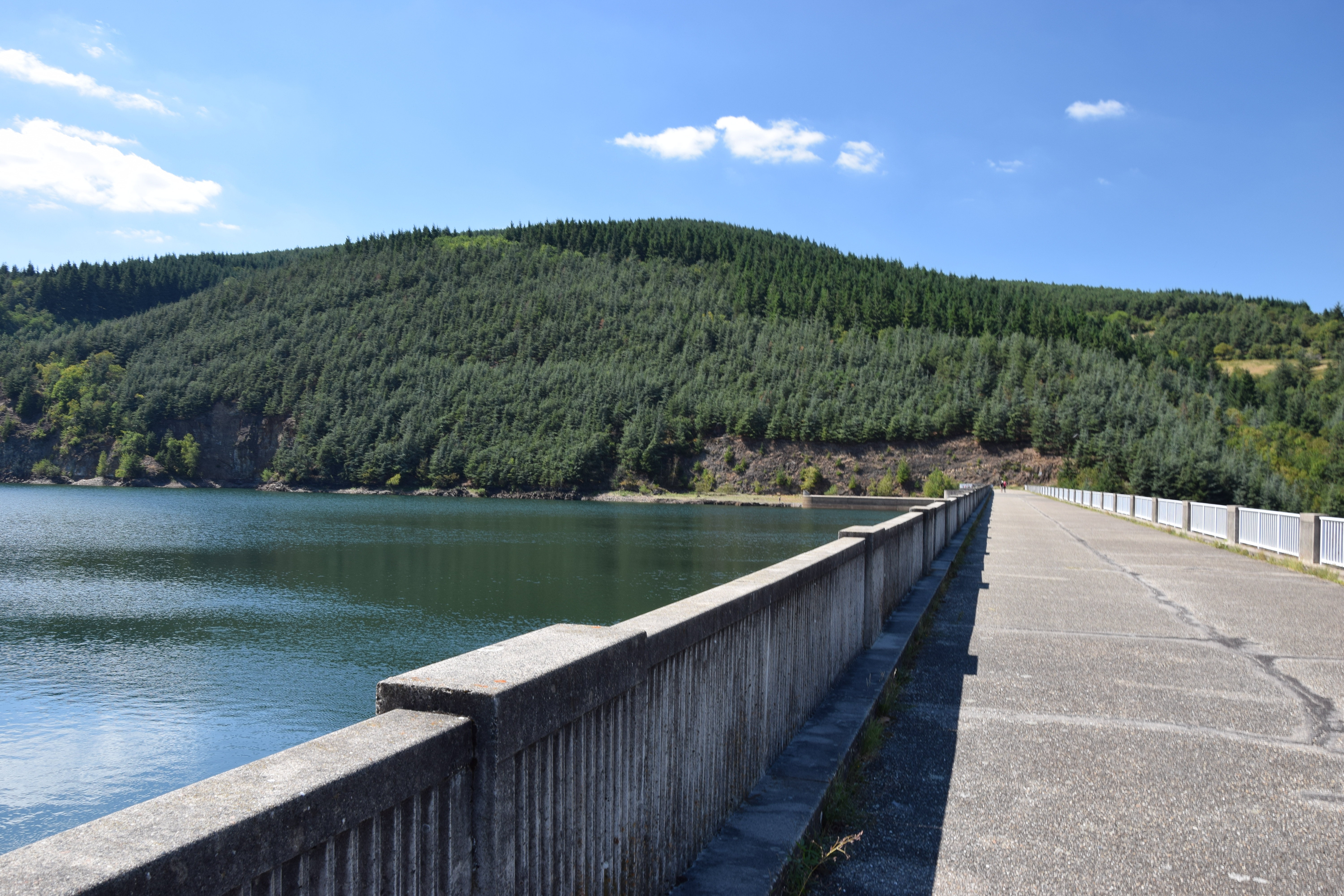 The Dorlay dam is located on the Dorlay between Doizieux and La Terrasse-sur-Dorlay. This dam was built to supply drinking water to the Gier valley.